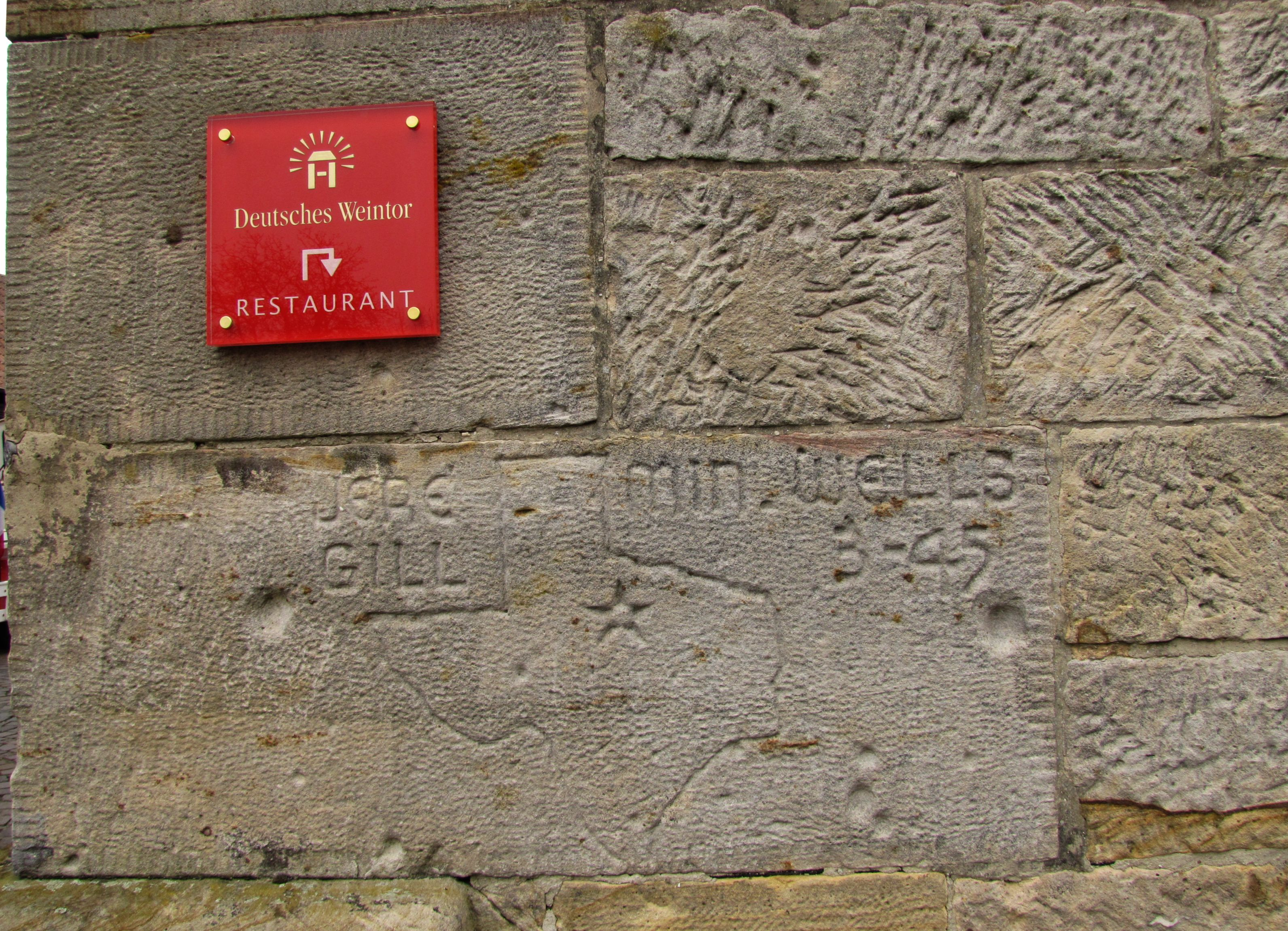 Grafitto on the south side of "Deutsches Weintor" ("German Wine Gate", starting point of the 1935 established German Wine Route) in Schweigen-Rechtenbach, Rhineland-Palatinate, showing the letters: "Jere Gills Min. Wells 3-45" and a map of US federal state Texas with a star, marking the position of Mineral Wells